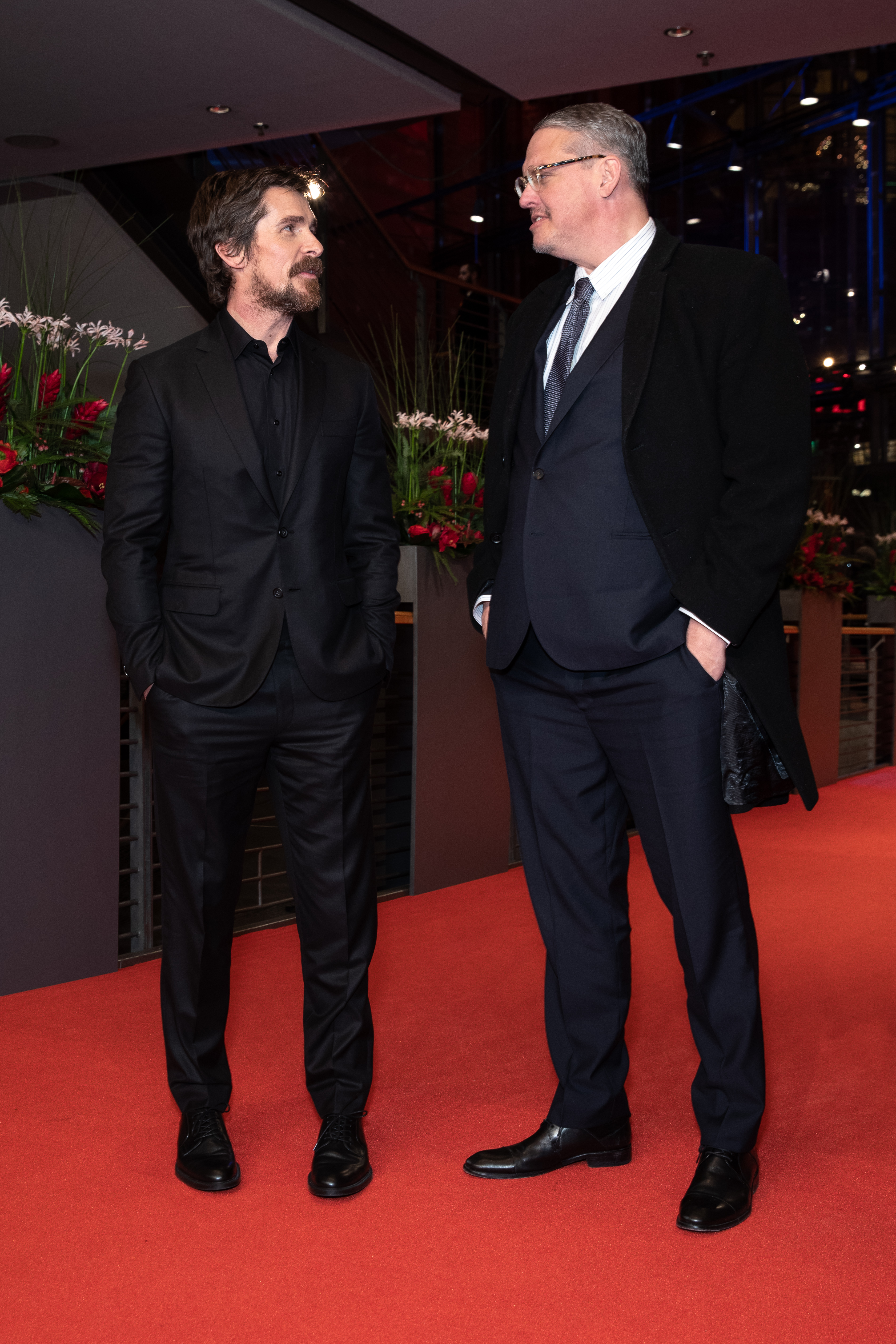 Christian Bale and Adam McCay presenting the movie "Vice" at the Berlinale 2019